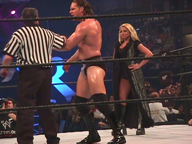 Val Venis and Trish Stratus at the WWF King of the Ring at the Fleet Center in Boston, MA in 2000 - WWE.